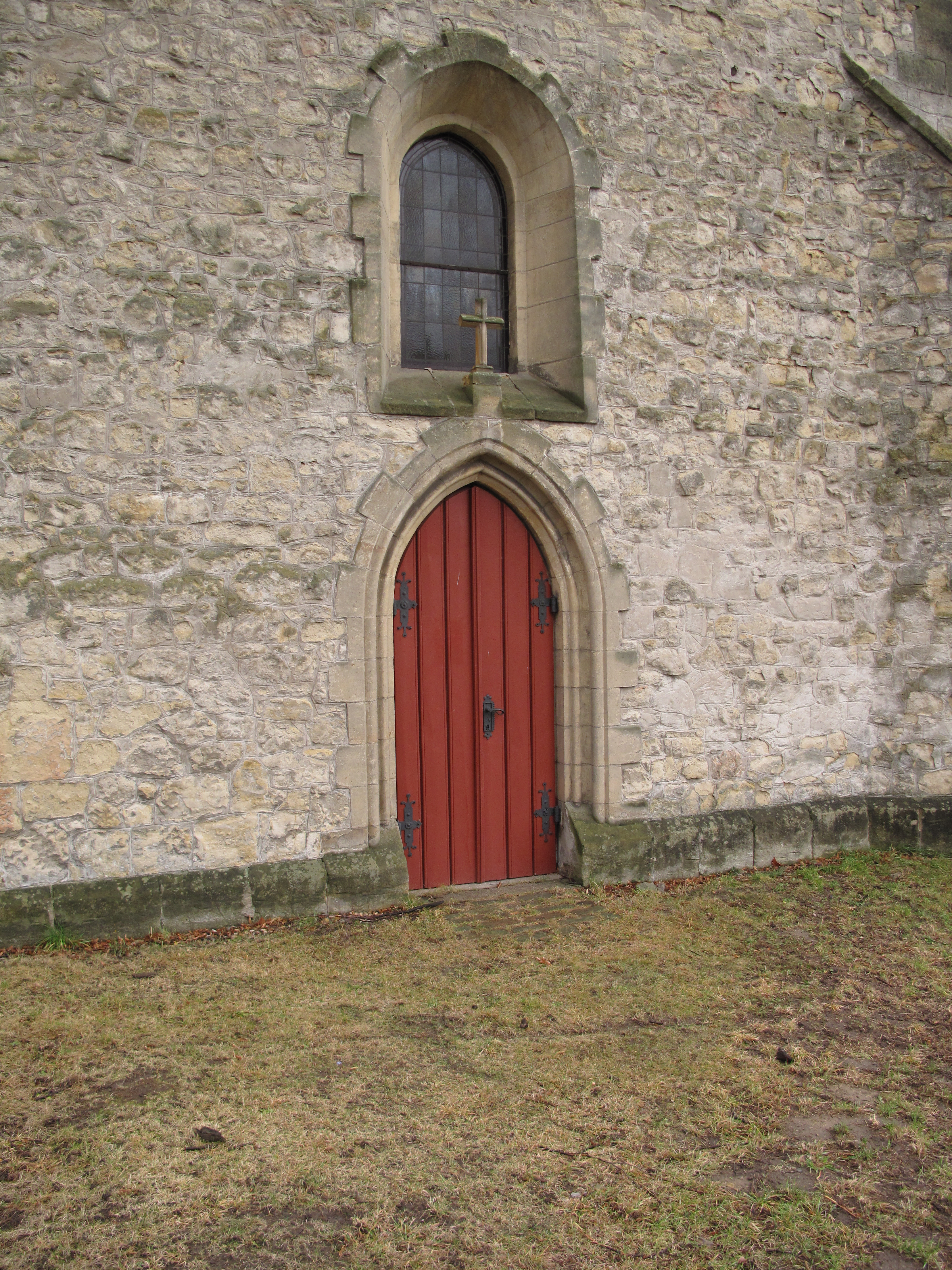 Church of the Beheading of St. John the Baptist in Krpy village, Mladá Boleslav District, Czech Republic.